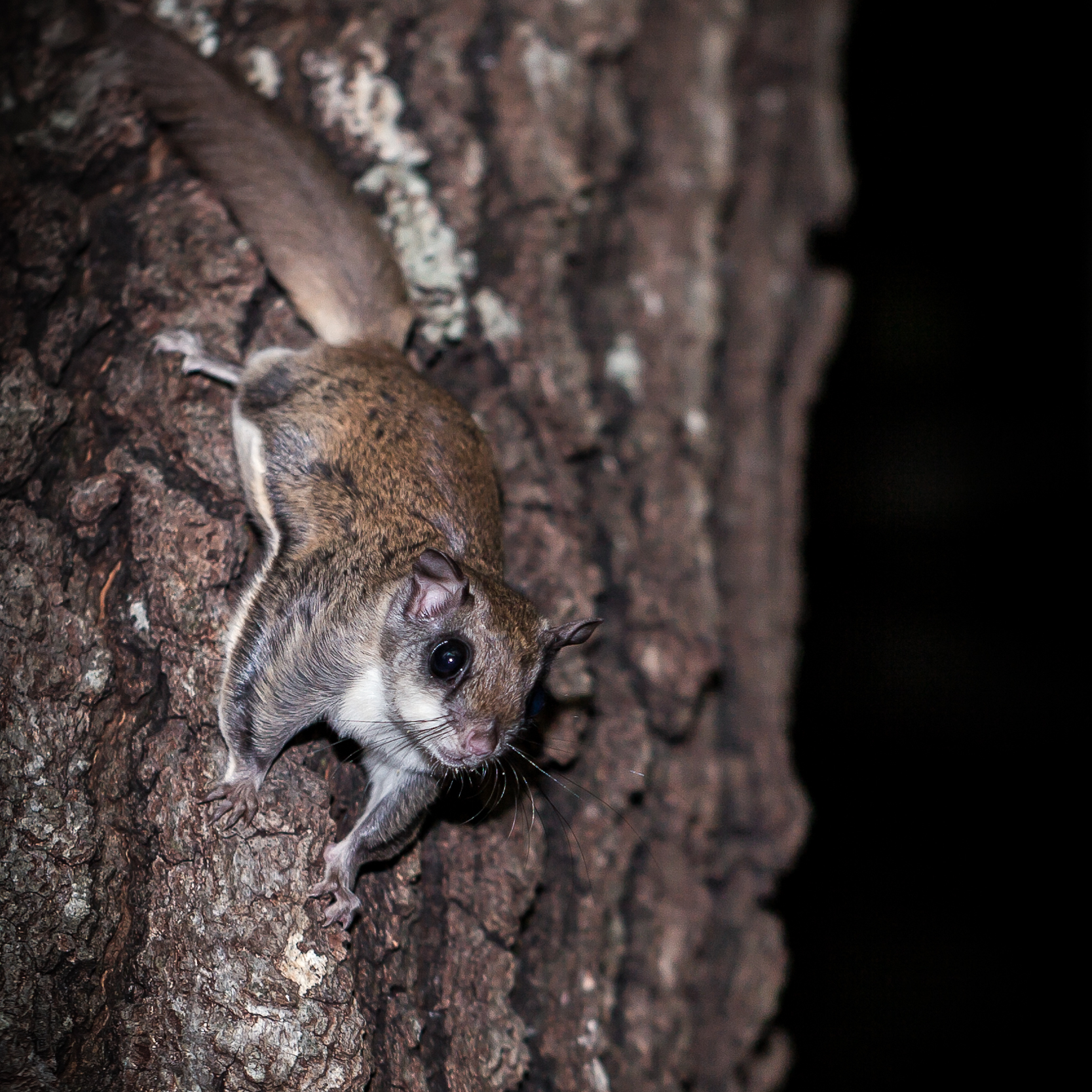 In Southside, Etowah county, Alabama this is one of many Southern flying squirrels that arrive after sundown each night to eat peanut butter suet. They glide in, one-by-one, and stay until the food is completely consumed.